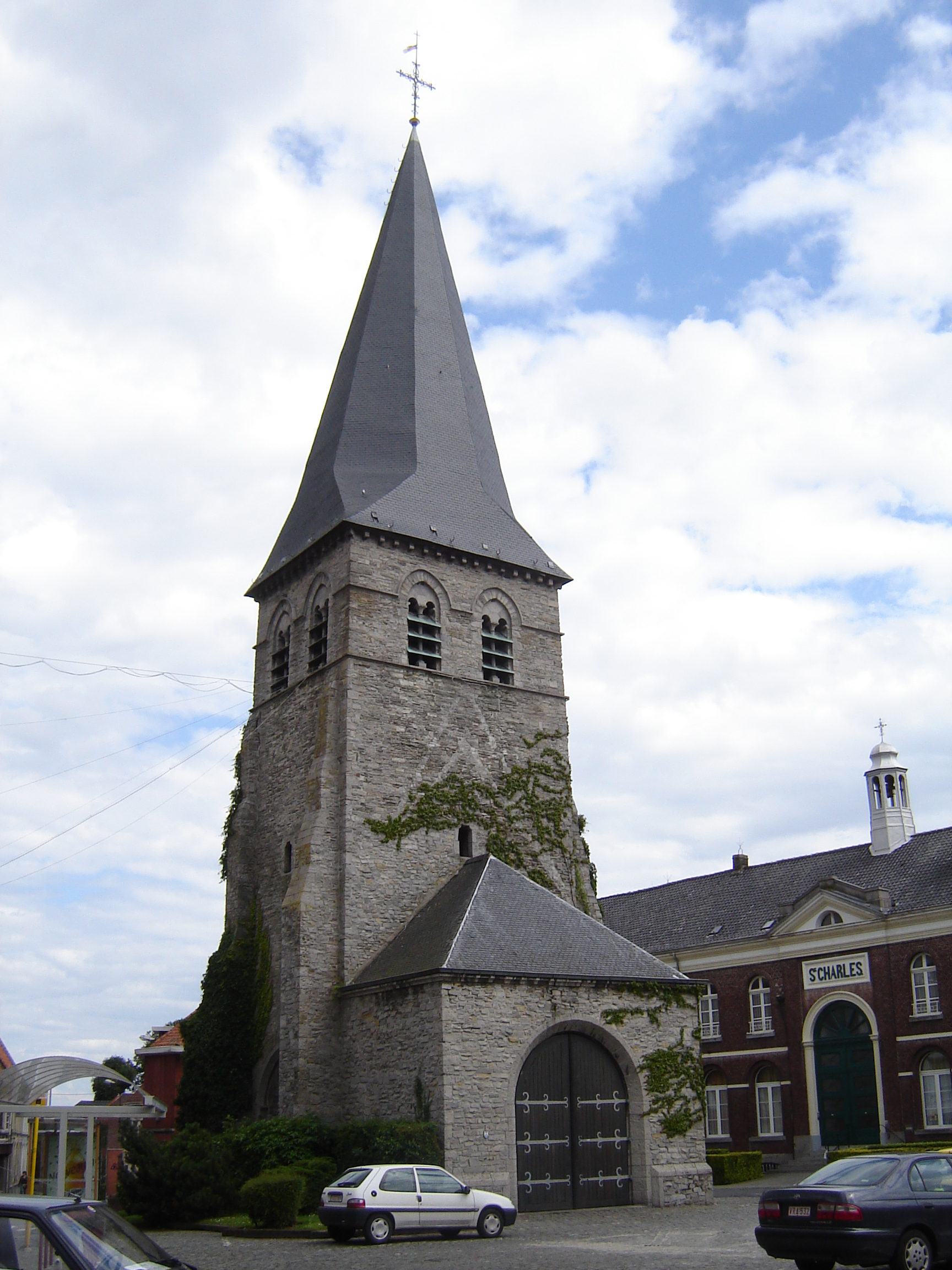 Tower of old parish church in Dottignies, Mouscron, Hainaut, Belgium